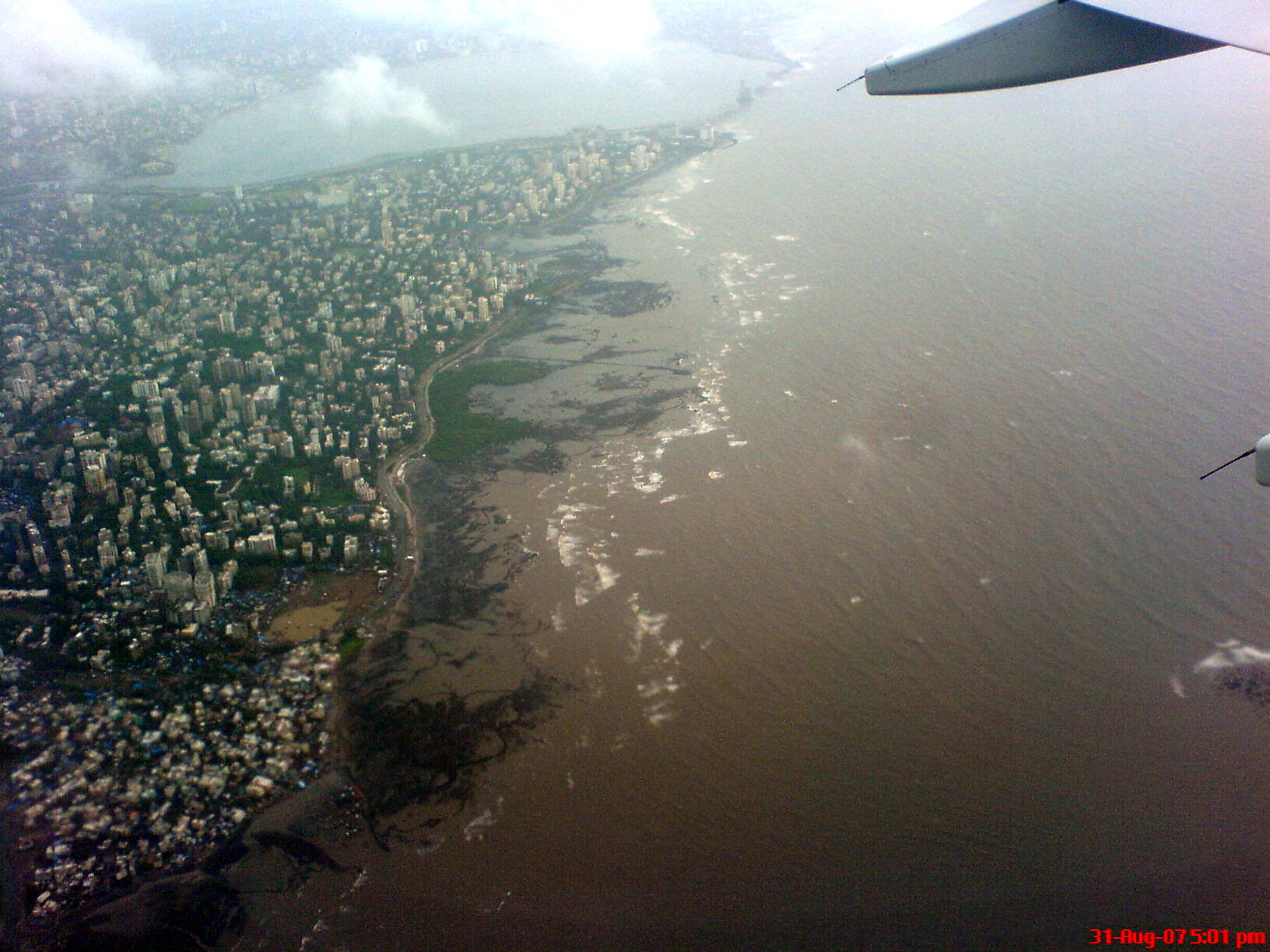 Bandra Island and the Bandra-Worli Sea Link